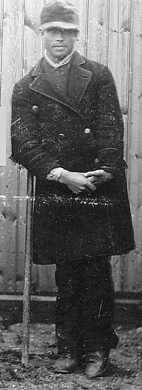 The police murderer Per Johan Pettersson who was executed 17 March, 1893.